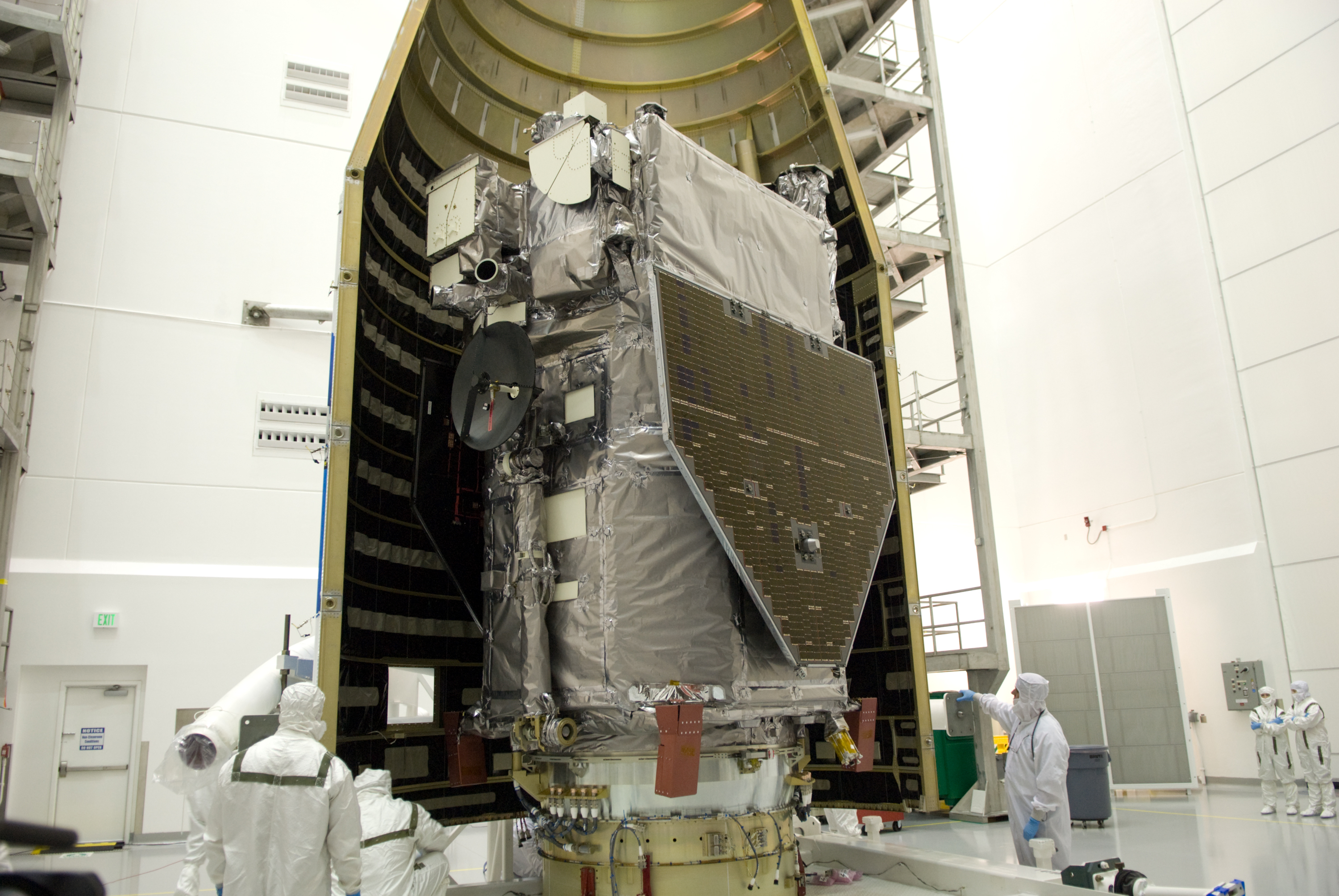 CAPE CANAVERAL, Fla. – At the Astrotech Space Operations facility in Titusville, Fla., NASA's Solar Dynamics Observatory, or SDO, is enclosed in one half of an Atlas V payload fairing. SDO is the first mission in NASA's Living With a Star Program and is designed to study the causes of solar variability and its impacts on Earth. The spacecraft's long-term measurements will give solar scientists in-depth information to help characterize the interior of the Sun, the Sun's magnetic field, the hot plasma of the solar corona, and the density of radiation that creates the ionosphere of the planets. The information will be used to create better forecasts of space weather needed to protect the aircraft, satellites and astronauts living and working in space. Liftoff aboard an Atlas V rocket is targeted for Feb. 9 from Launch Complex 41 on Cape Canaveral Air Force Station. For information on SDO, visit